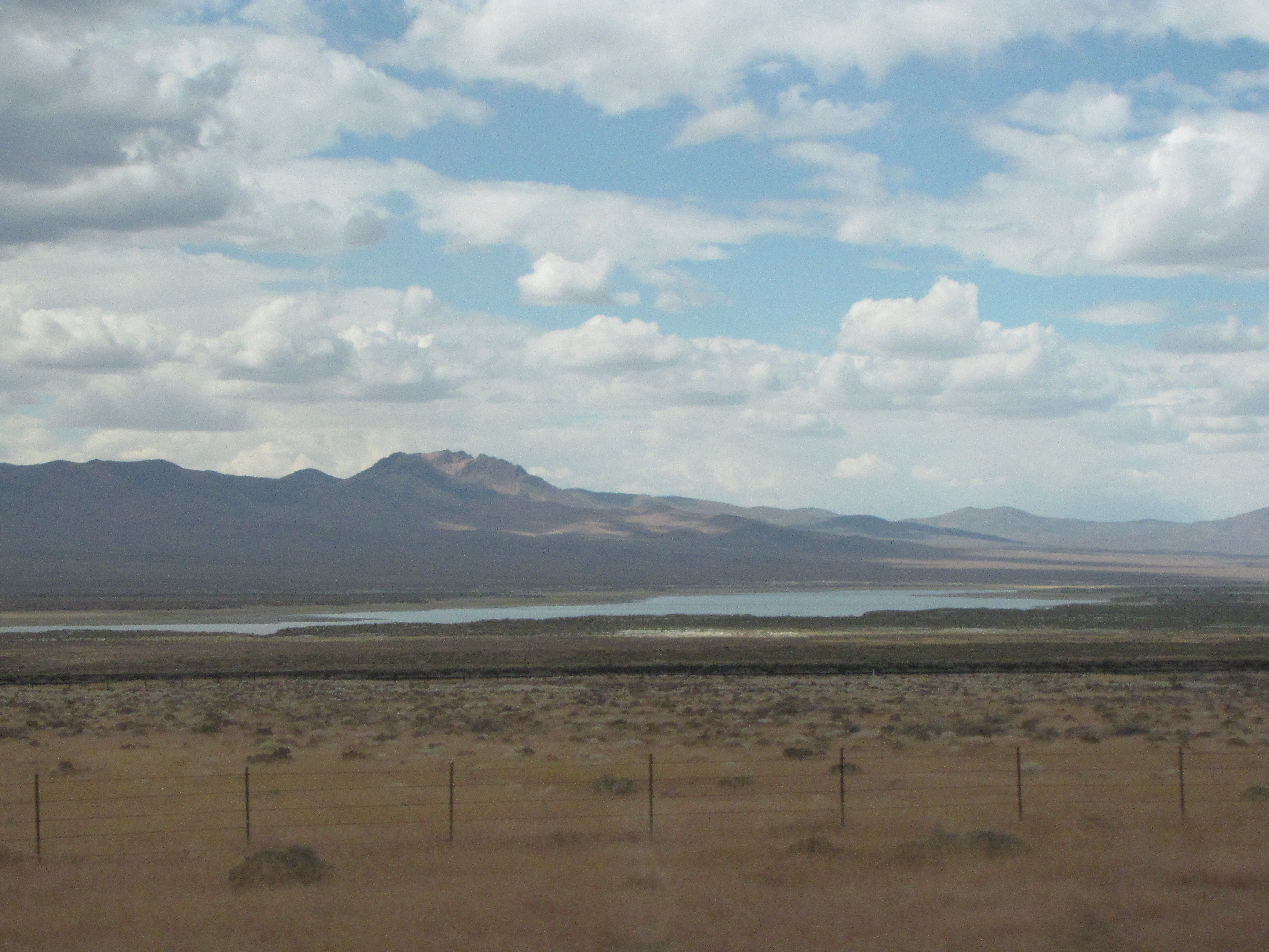 The Rye Patch Reservoir on the Humboldt River as seen from I-80, south of Imlay. View is toward the northwest.